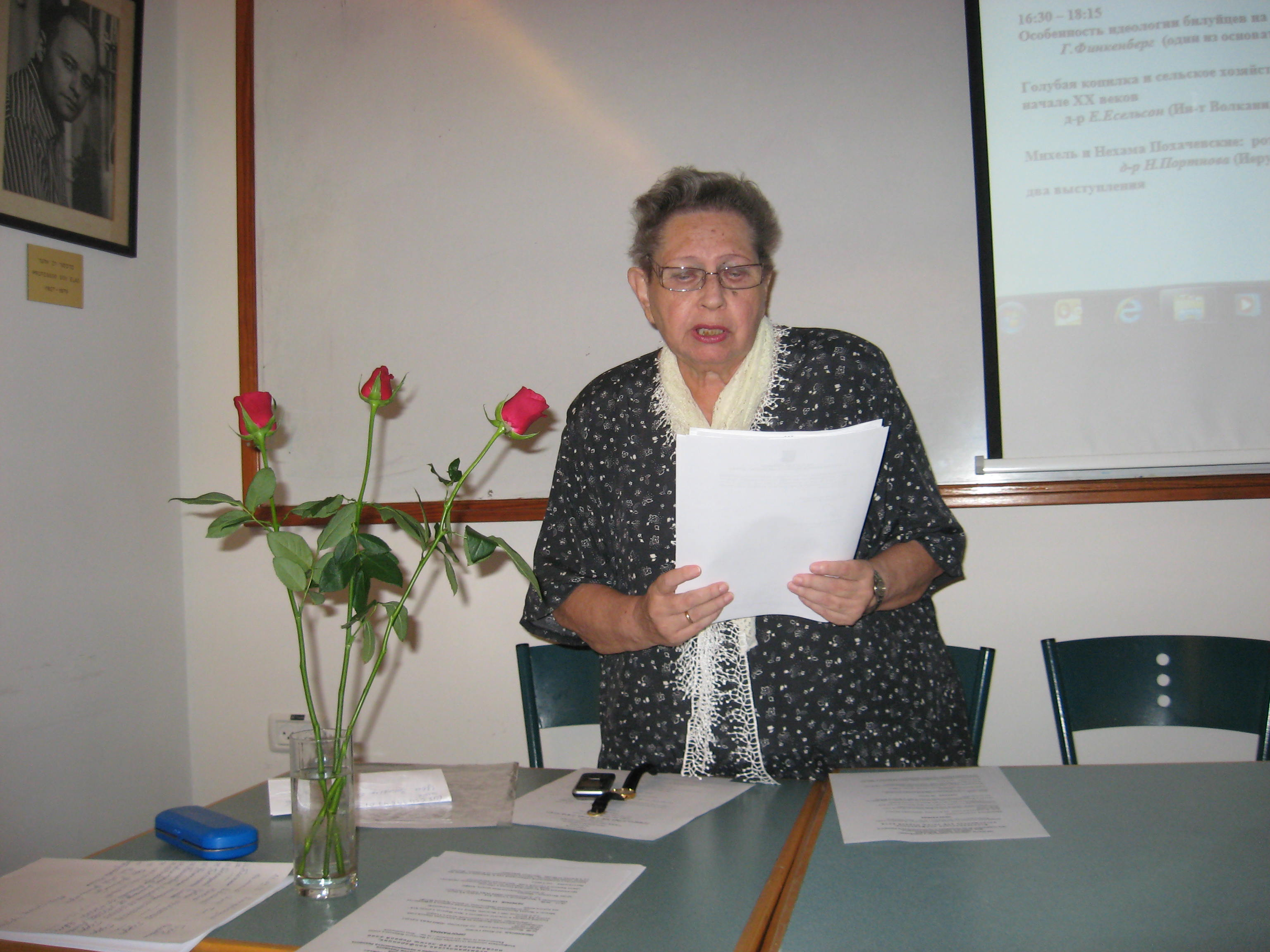 Yulia Sister, Moldavian and Israeli chemist, science historian, researcher of Russian Jewry Abroad and in Israel